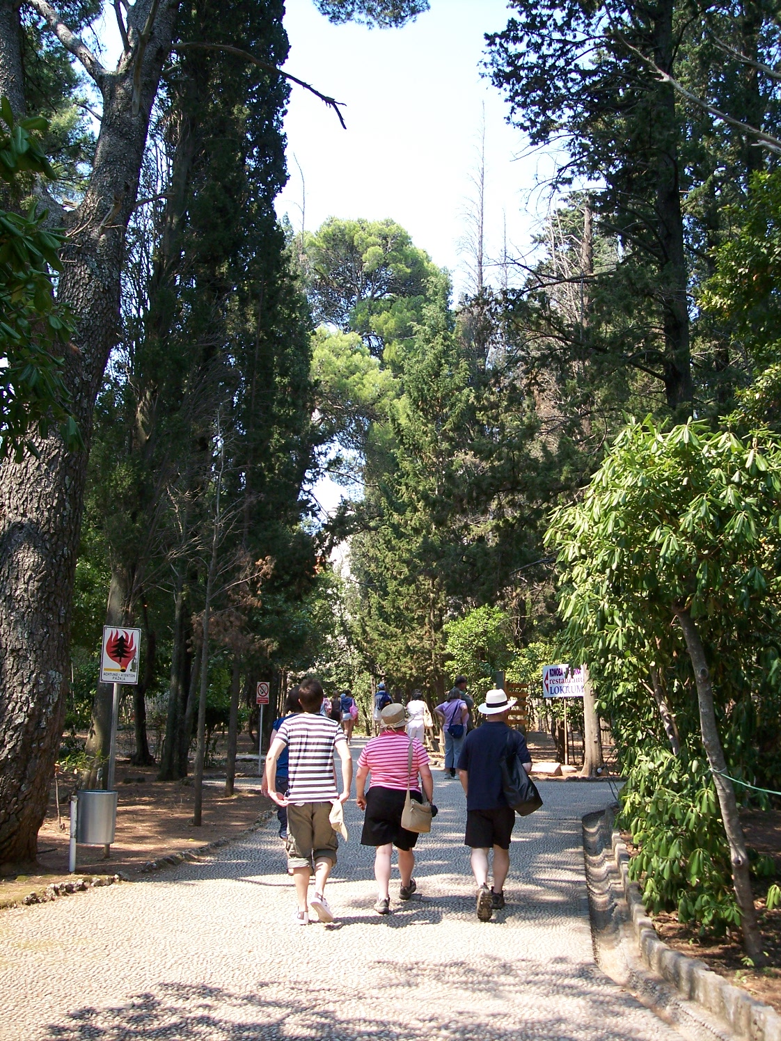 Lokrum isle (Croatia)